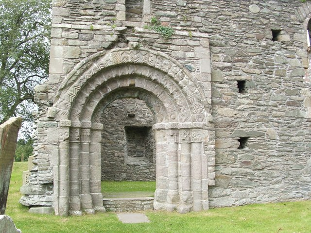 Whithorn Priory - doorway of the nave This building corresponds to the nave of the former cathedral and priory.